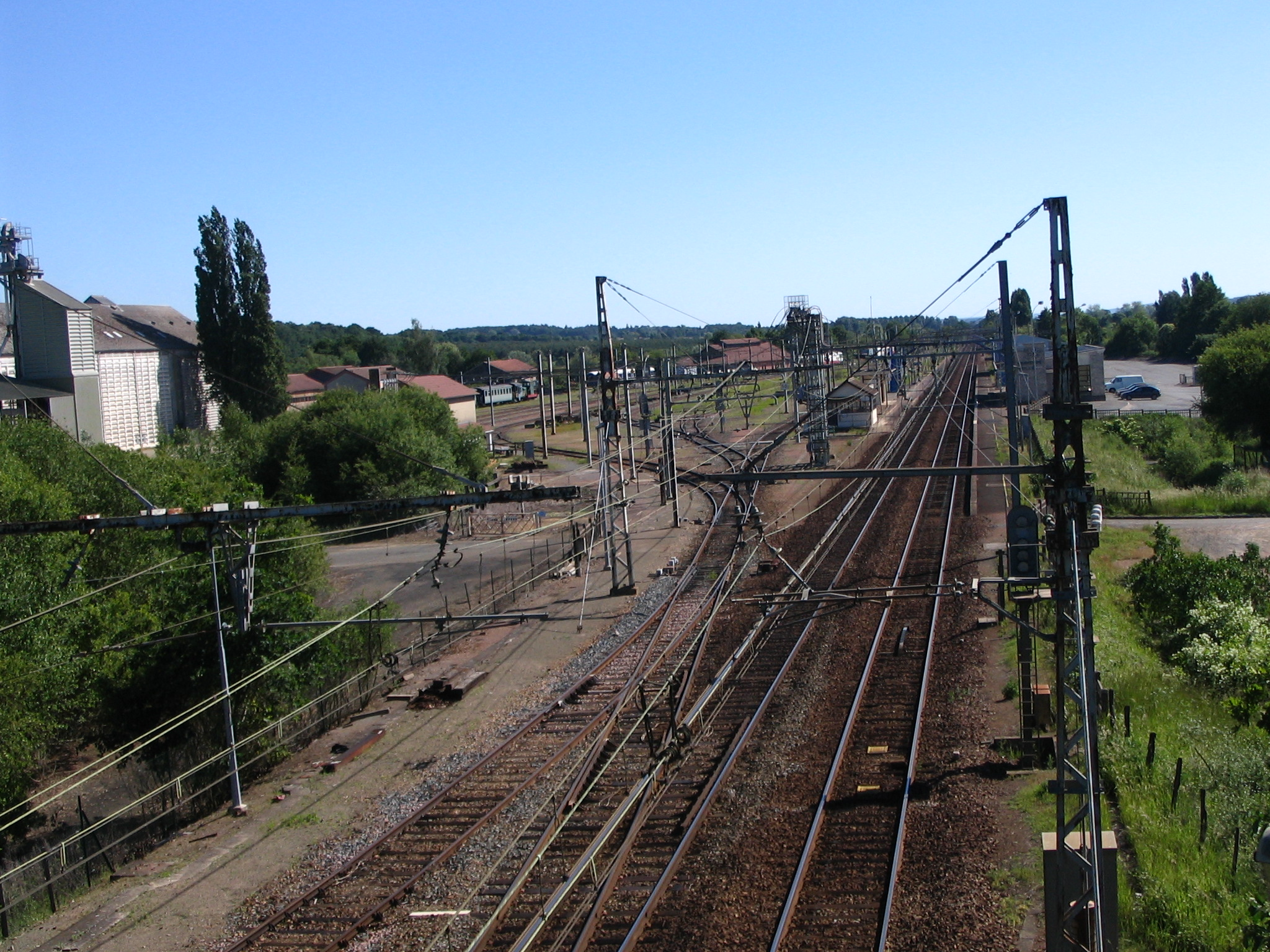 The train station of Connerré-Beillé, Sarthe, France.